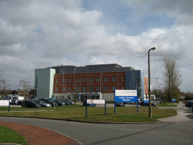 NHS Treatment Centre, Halton Hospital The new, state of the art NHS Treatment Centre on the Halton Hospital site opened its doors to patients in 2006, it specialises in orthopaedic treatments.